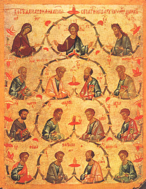 The Synaxis of the holy and the most praiseworthy Twelve Apostles